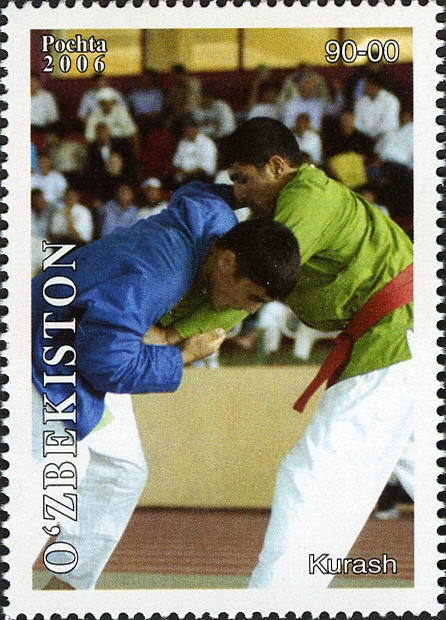 Stamps of Uzbekistan, 2006